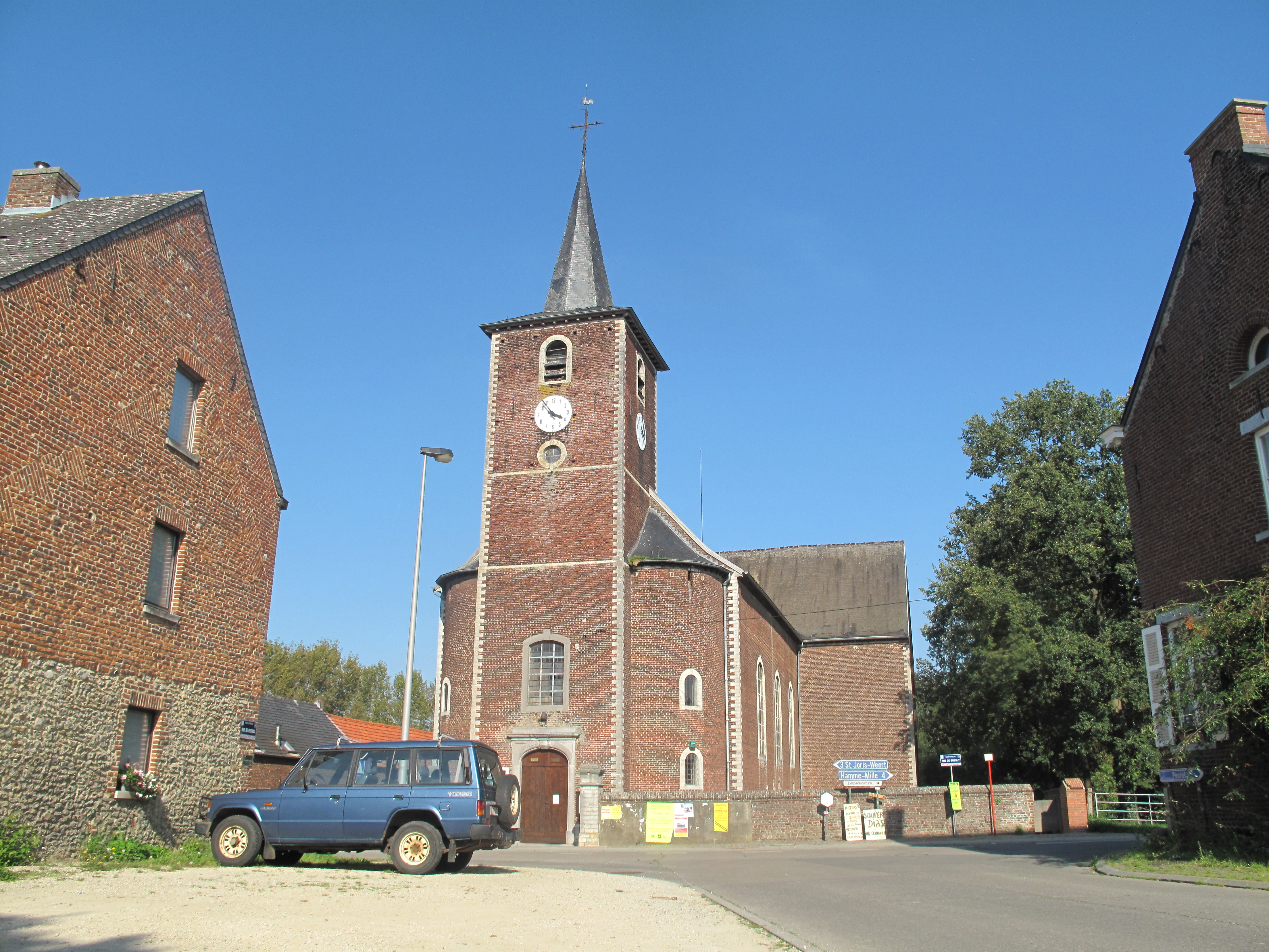 Nethen, church